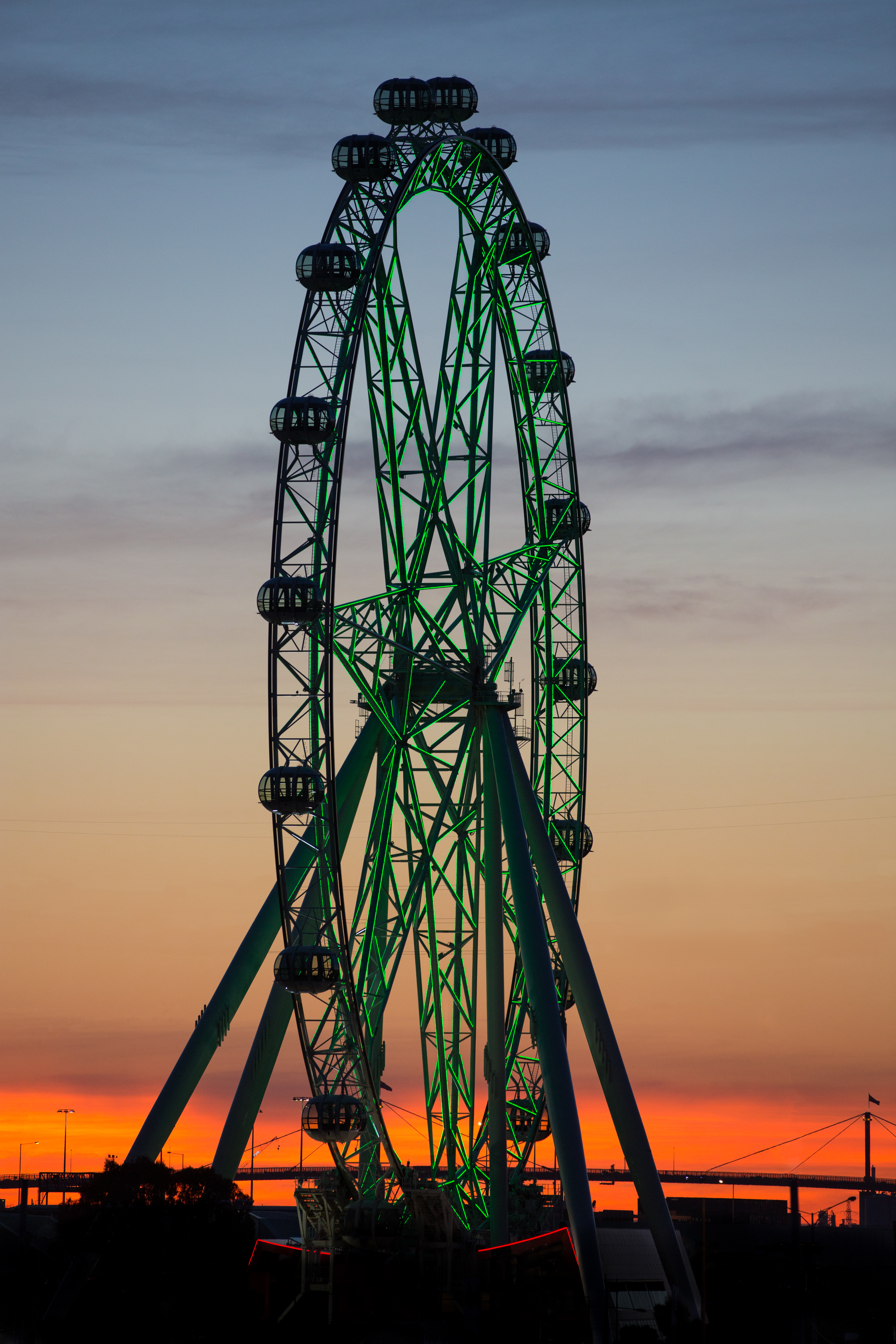 Melbourne Star Observation Wheel 19th December 2013